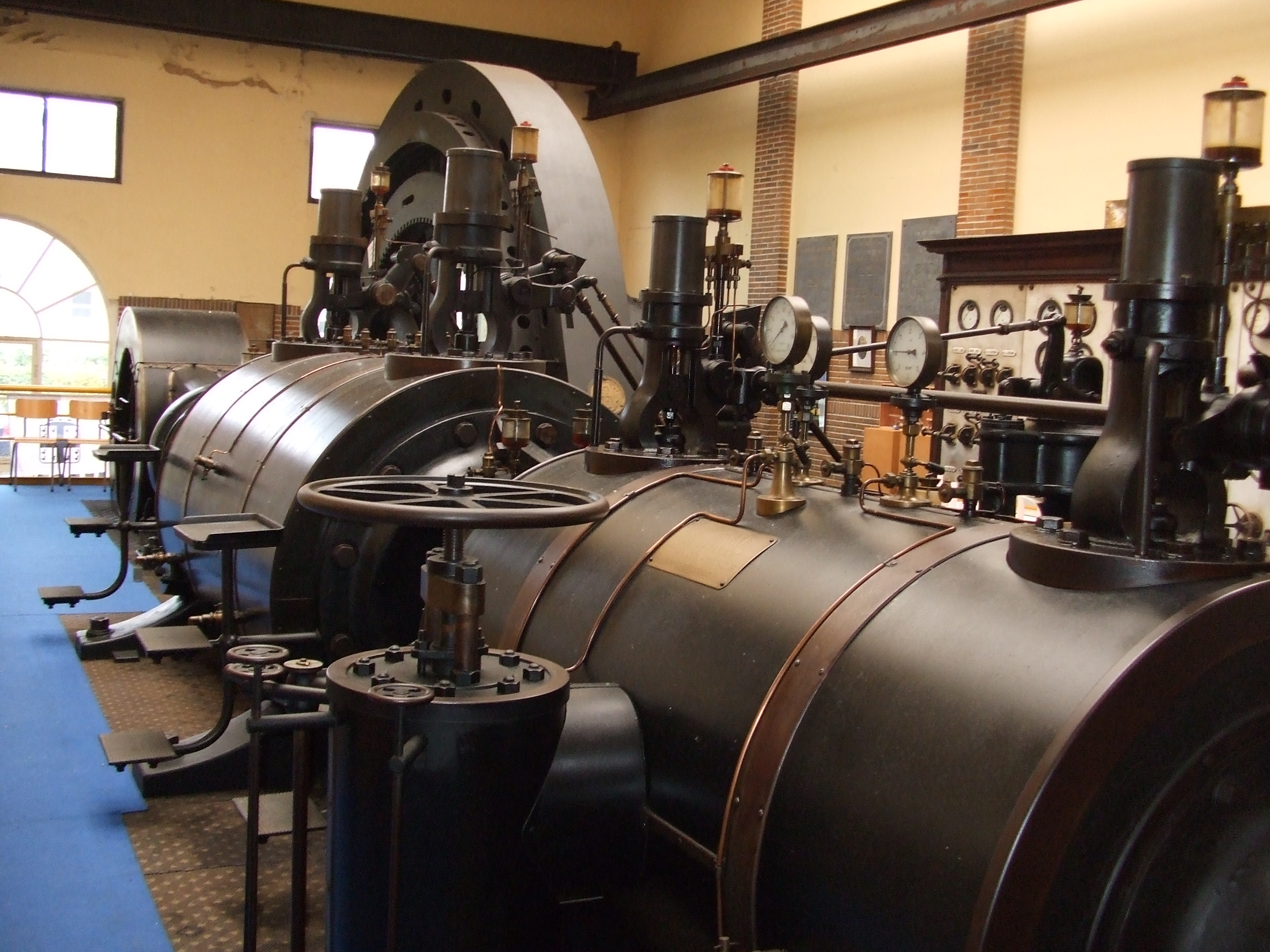 Centrale Etiz Izegem